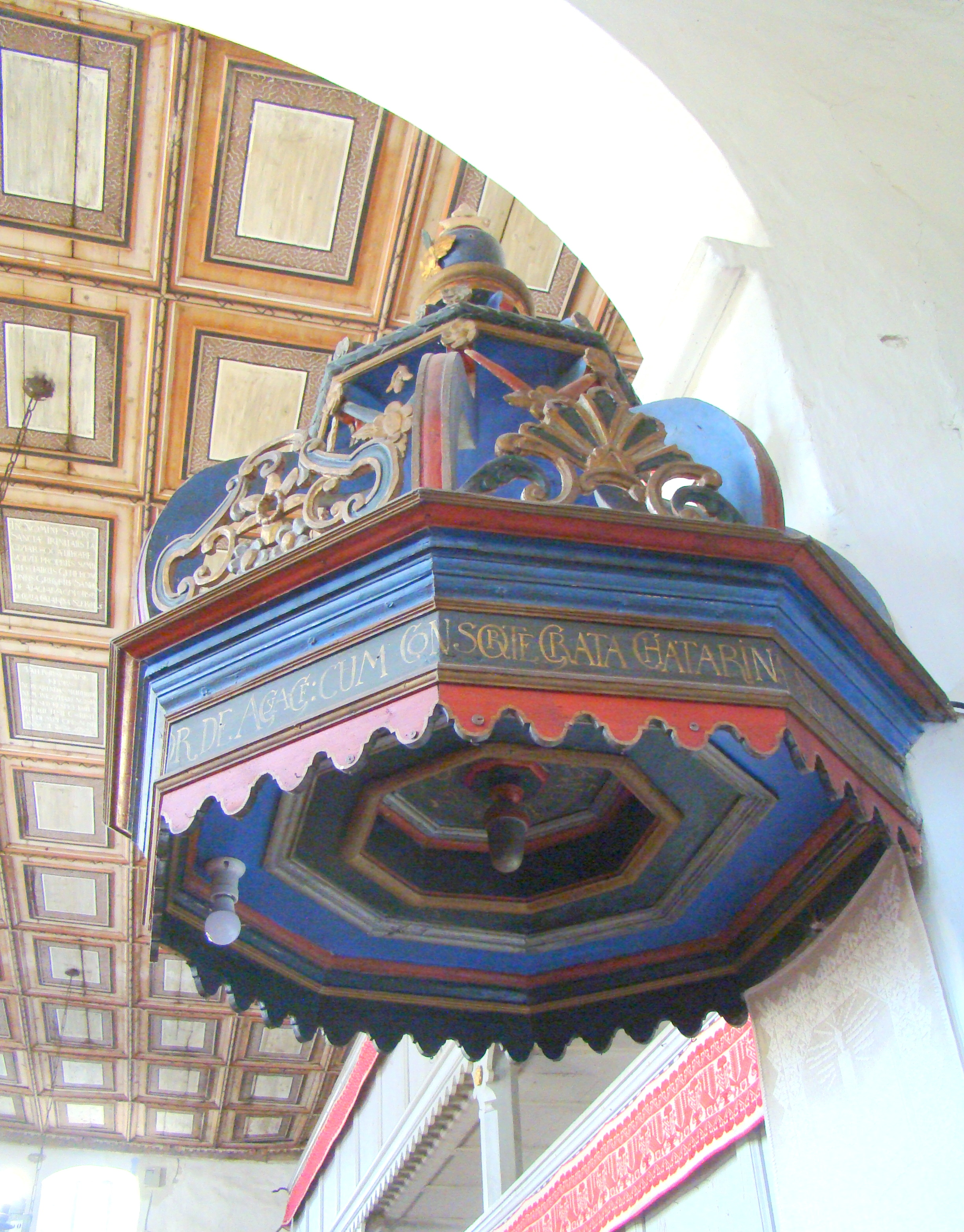 The canopy over the pulpit in the reformed church in Lutița, Harghita County, Romania 01